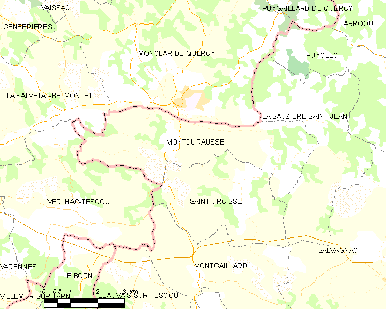 Map of French municipality Montdurausse